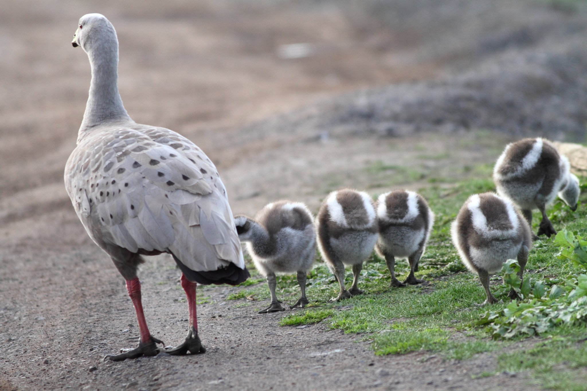 An adult Cape Barren Goose with goslings on Phillip Island, Victoria, Australia.